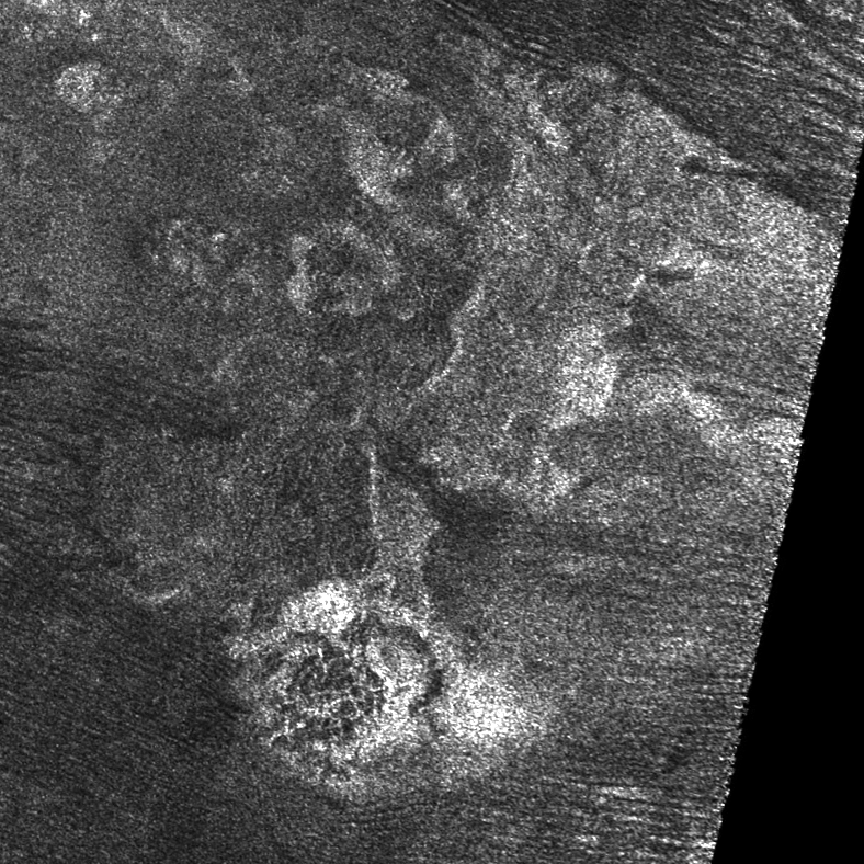 Radar image of Titan surface by Cassini. 128 pix/deg (2.85 pix/km). Part of strip T25 (February 22, 2007): Doom Mons, Sotra Patera and Mohini Fluctus can be seen. The original image was cropped, rotated on 75 deg counterclockwise (to make north on the top) and it's brightness was increased.